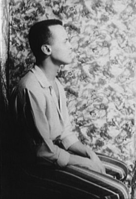 Portrait of Harry Belafonte, 1954 Feb. 18.